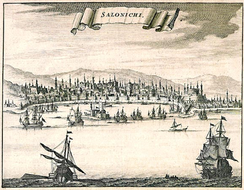 A map of Thessaloniki, Greece, in 1688.